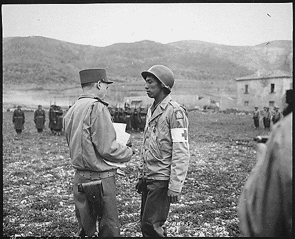 "Pvt. Jonathan Hoag,...of a chemical battalion, is awarded the Croix de Guerre by General Alphonse Juin, Commanding General of the F.E.C., for courage shown in treatingwounded, even though he, himself, was wounded. Pozzuoli area, Italy.", 03/21/1944